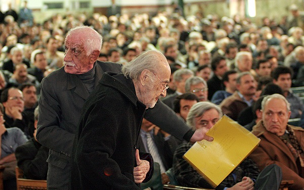 12th Death anniversary of Mehdi Bazargan